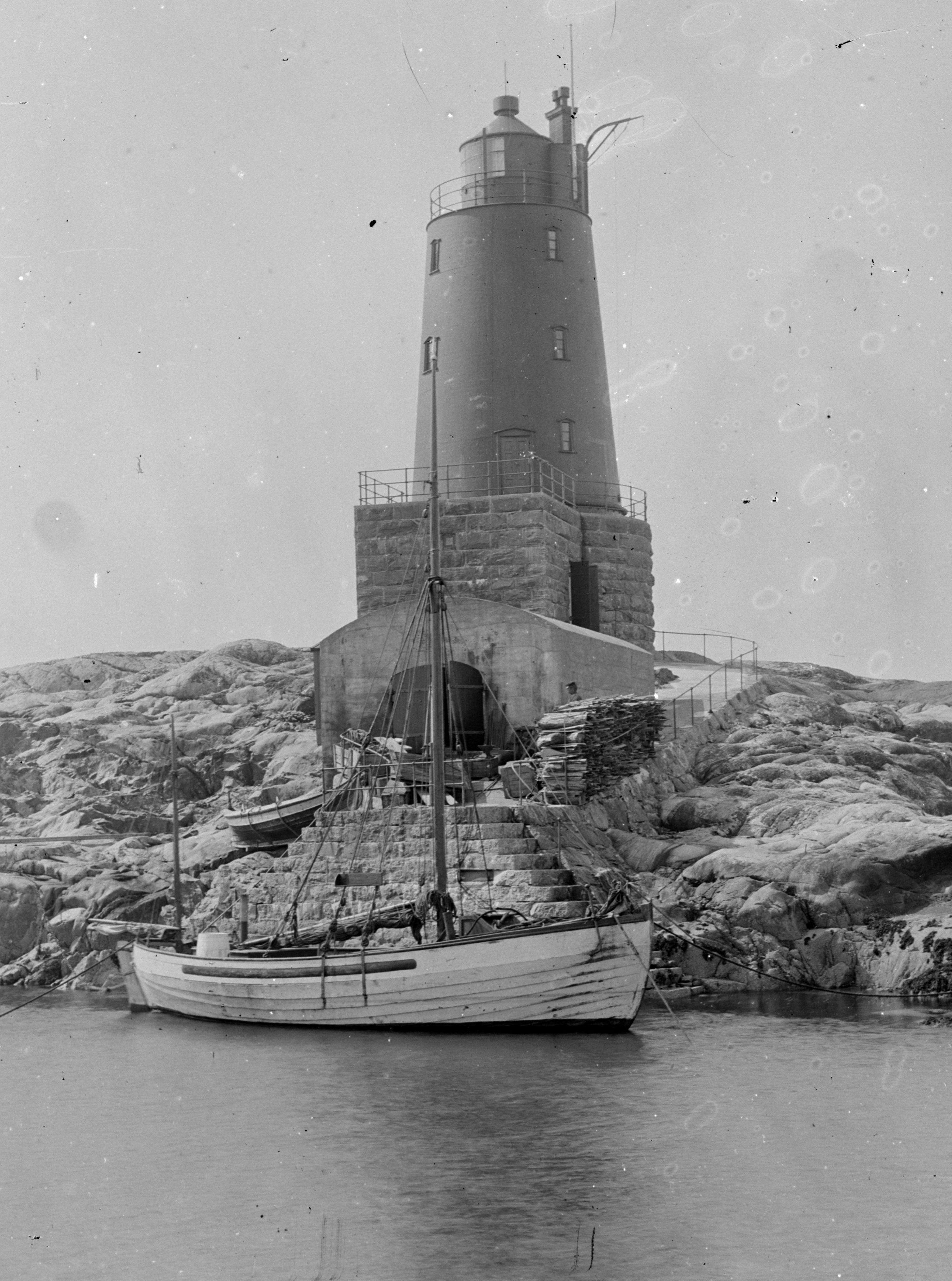 SFFf-1988007.0037 The image of the lighthouse is uploaded to Flickr with comments that the subject is unknown. However, a picture has been uploaded on digitalmuseum.no, of the same motive, only with a little different camera rating, see Grinna fyr. Here is the title i "Vikna, Grinna fyr in 1912". Also a search on Google shows images of the lighthouse today, the same characteristics as in this picture confirm that it must be Grinna lighthouse. After all, there are not many lighthouses in Norway who have this kind of tower. Photographer: Anders Folkestadås Date: ca 1900-1910. Medium: Glassplate negative Extent: 8 x 11 cm = 'SFFf-1988007.0037'